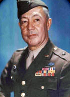 Charles Reed Bishop Lyman, born August 20, 1888 graduated from West Point in 1913. He served in the infantry in World War I. In 1944 he was promoted to brigadier general, and commanded a brigade of the 32nd Infantry Division in the Philipines campaigns. He retired to West Chester, Pennsylvania and died April 15, 1981.